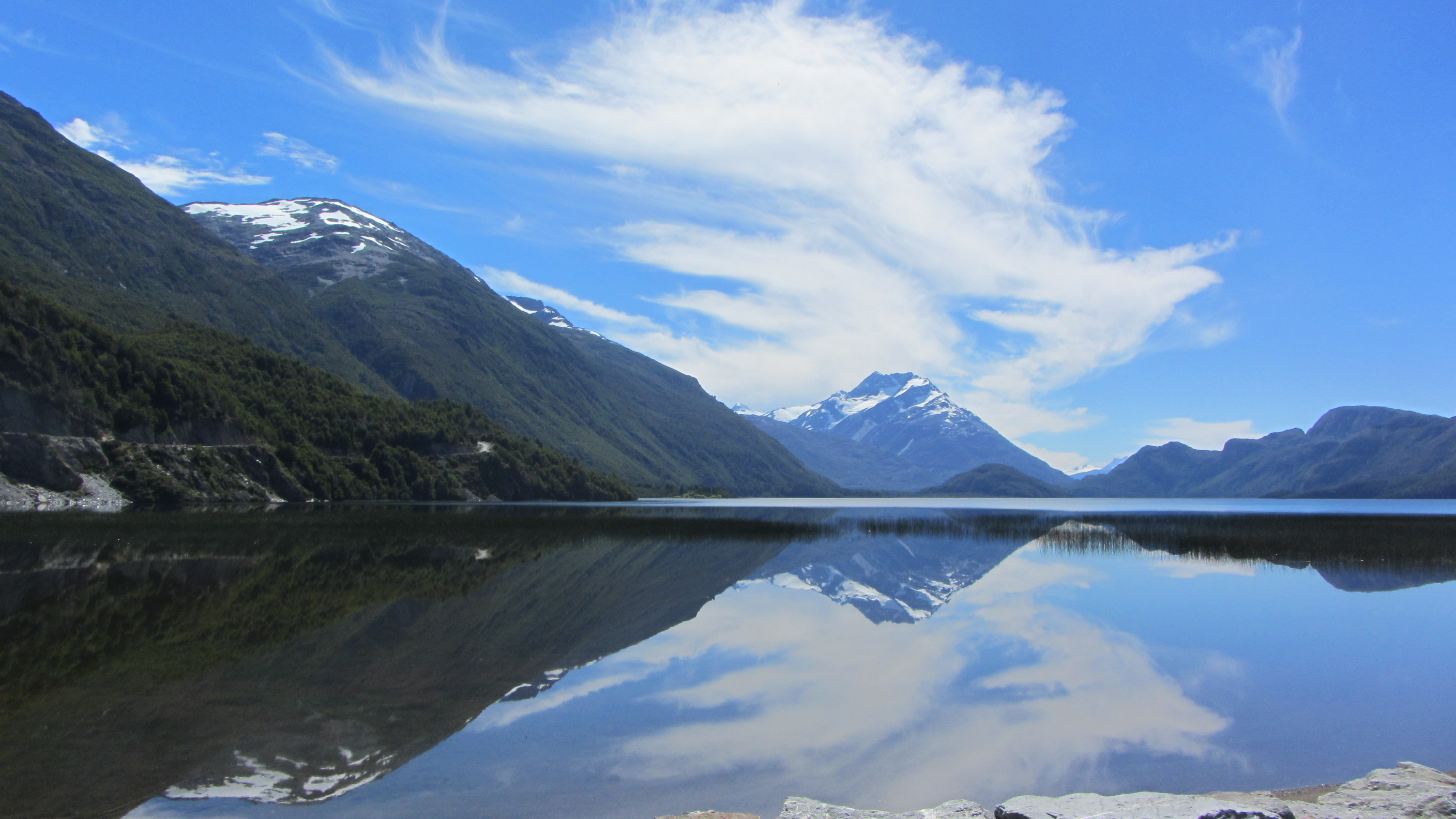 Lago Cisnes Oriente, desde Villa O'Higgins